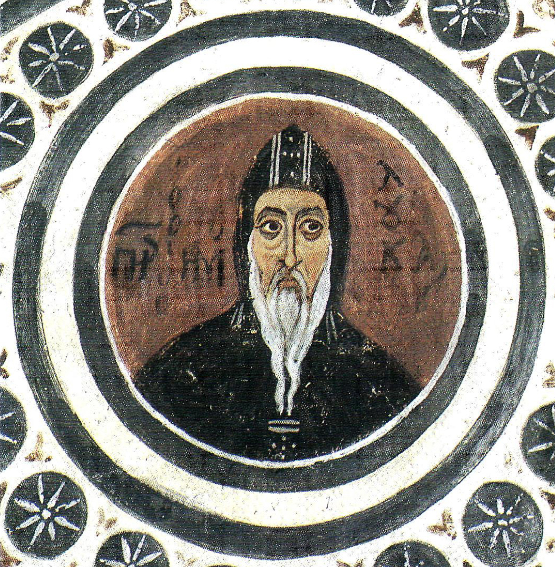 Hosios Loukas Monastery, Boeotia, Greece